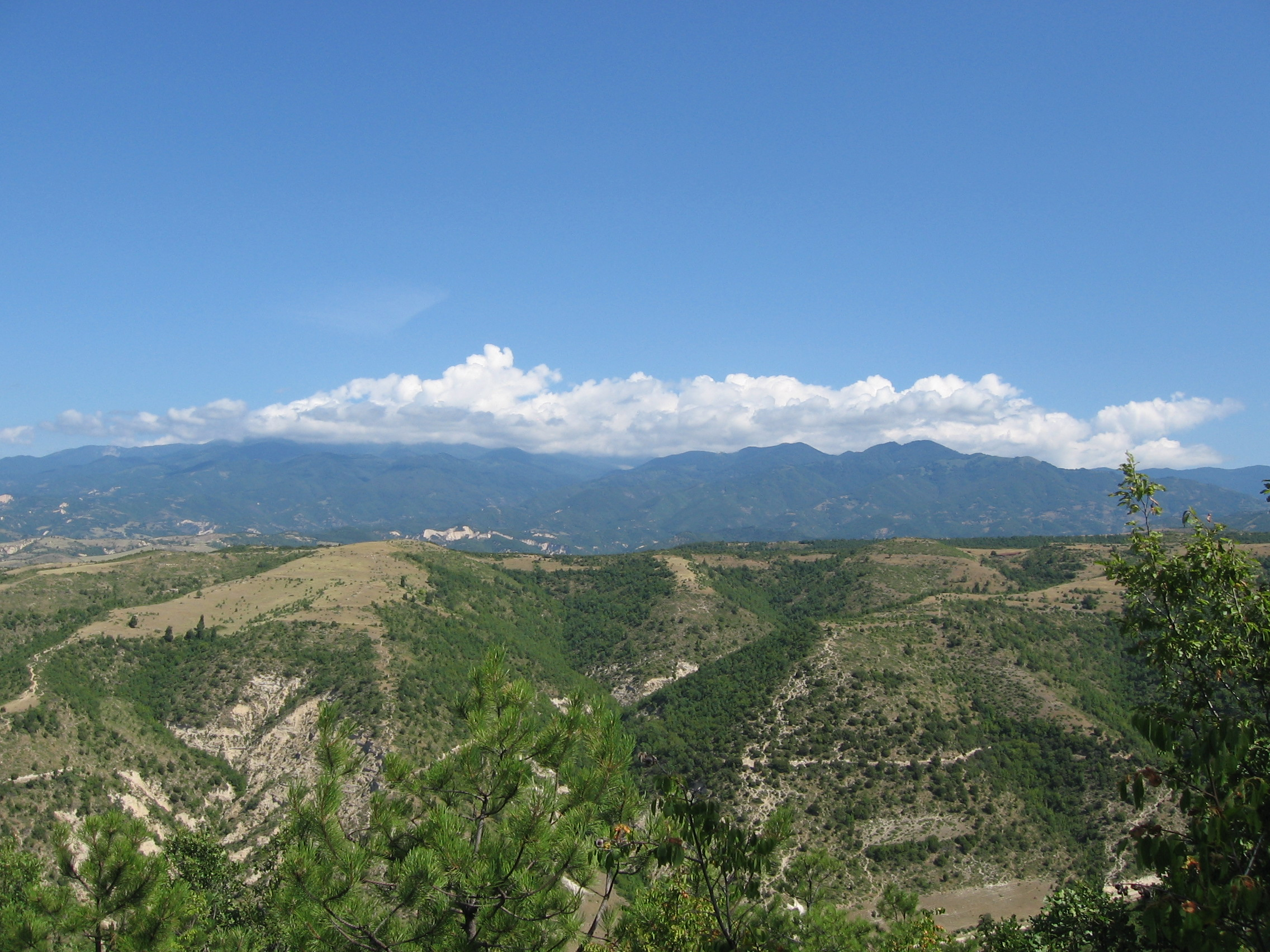 The Pirin mountains as seen from a hill above Kalimantsi village.